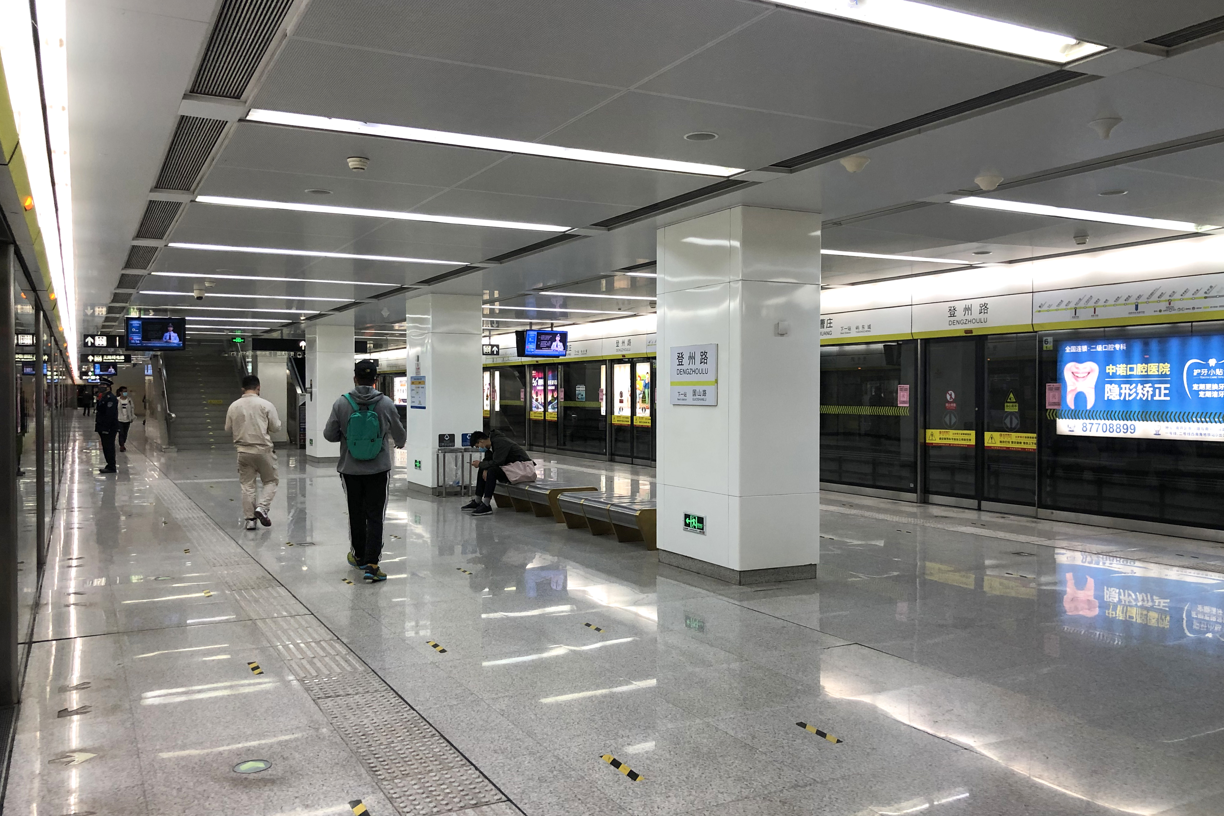 Reminded me of one thing: Wendeng Road was renamed to Dongfang Road due to homophonic issues.